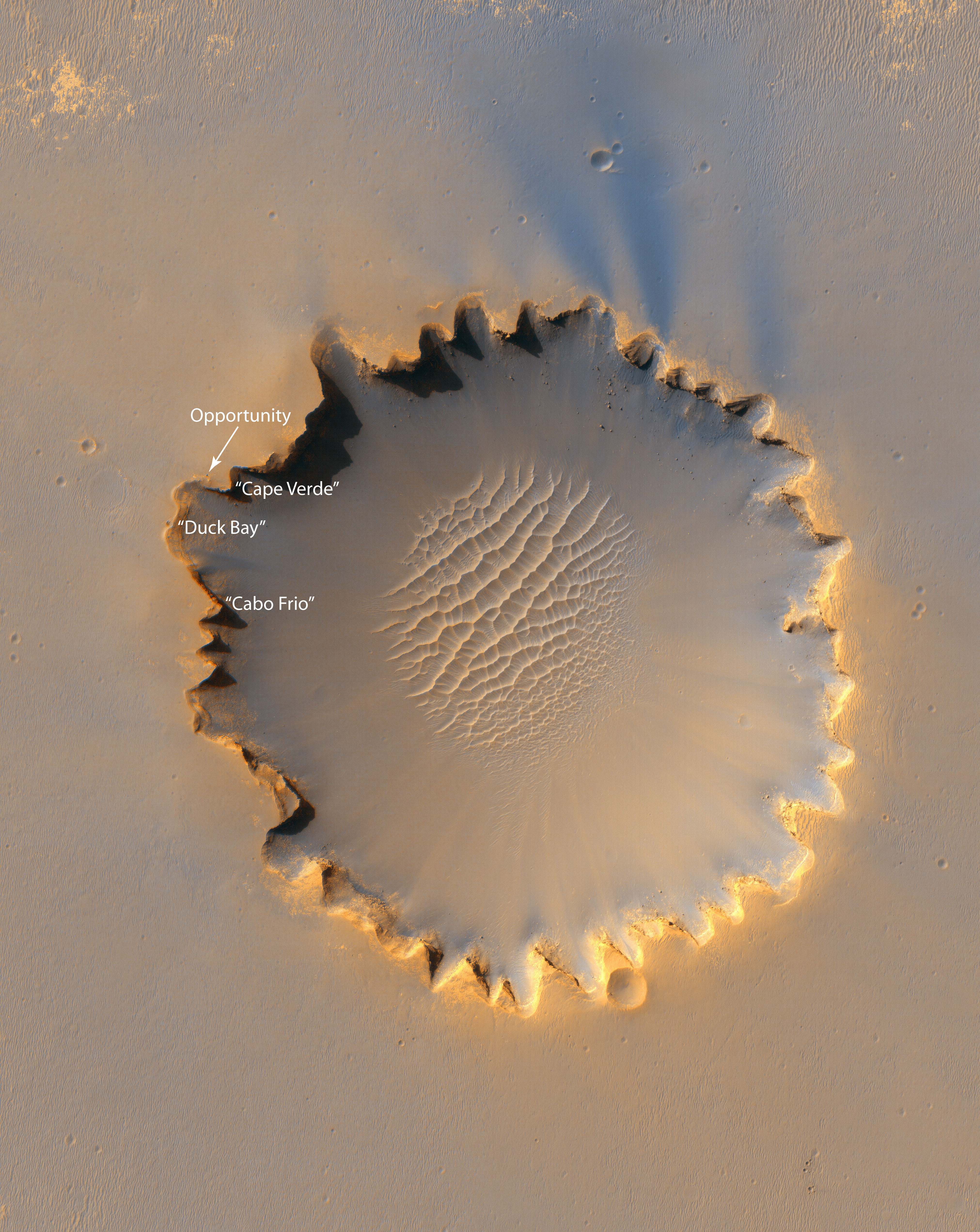 This image of the Victoria Crater was taken by the HiRISE camera on board Mars Reconnaissance Orbiter (MRO). The crater is located at Meridiani Planum near the Mars equator. Most striking, however, is the small shiny object located at roughly the 10 o'clock position on the rim of the crater. The object is the Mars Exploration Rover (MER), Opportunity. The small vehicle has traveled over 5 miles (9 km) since January, 2004 to reach this unexpected destination.